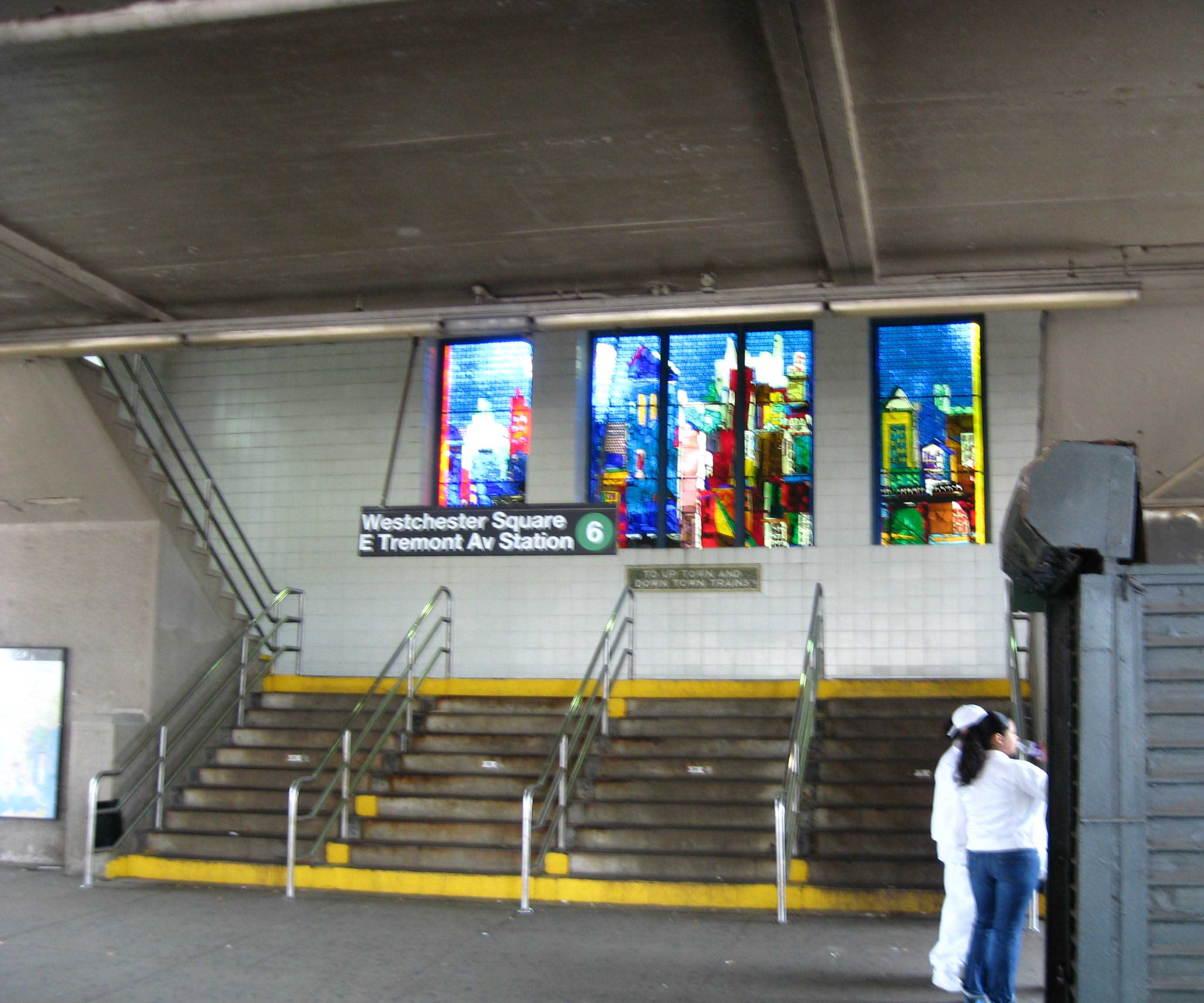 Looking north and up into Westchester Square–East Tremont Avenue (IRT Pelham Line) grand staircase at Noon on a sunny springtime day.